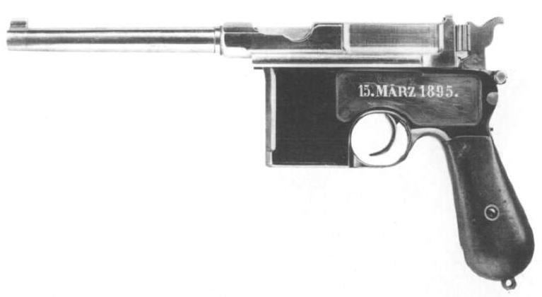 Early prototype of Mauser C96 made by Wilhelm Mauser and Paul Mauser brothers, date mark as 1895/Mar/15.